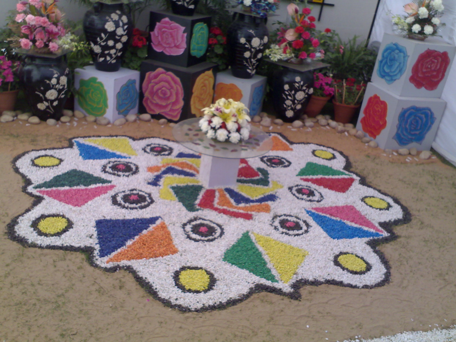 Rangoli with marble and stone pieces at a competition in Rose festival in Chandigarh.